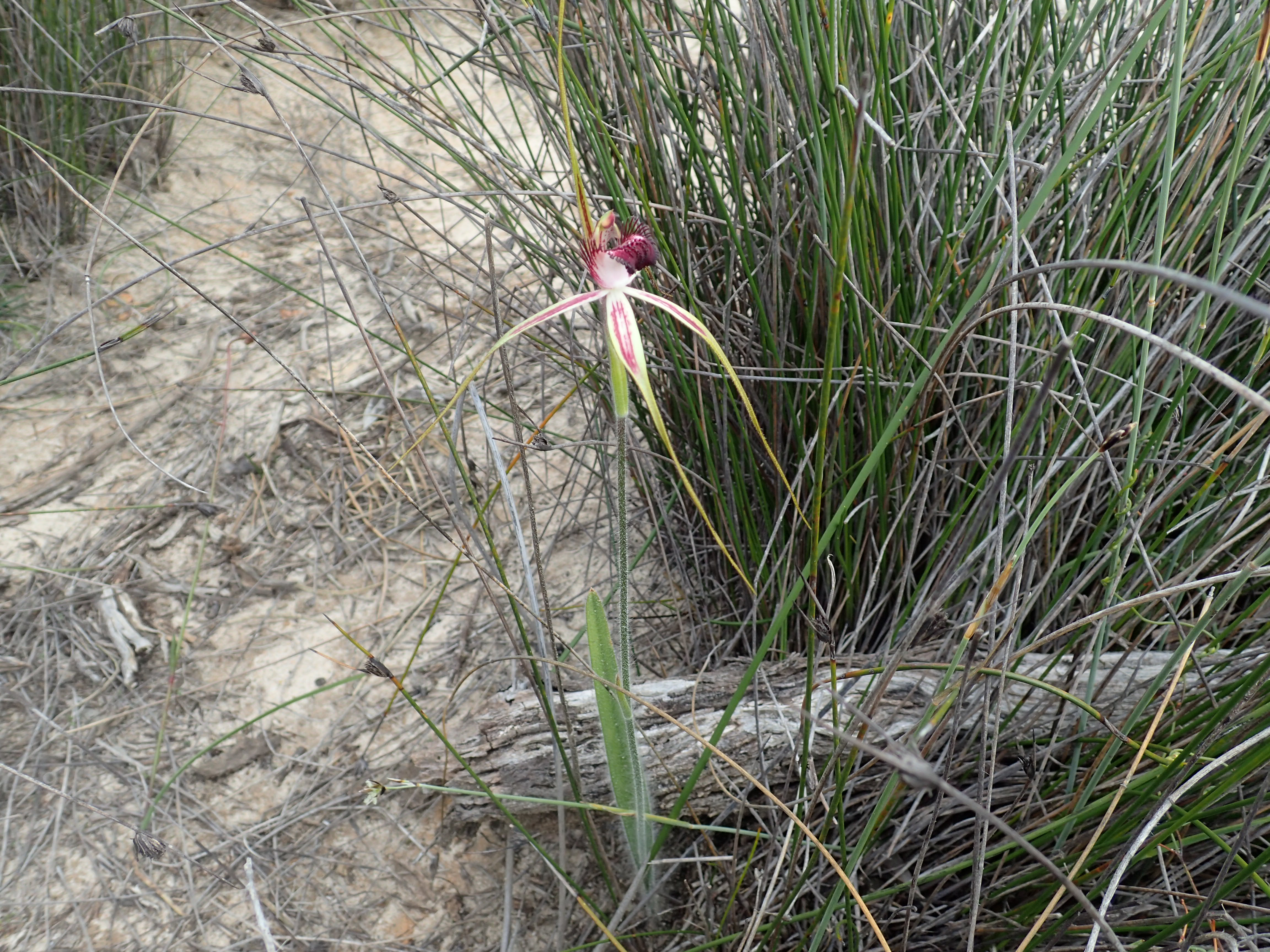 Caladenia lorea growing on the Coorow-Greenhead Road near the Halfway Hill Roadhouse